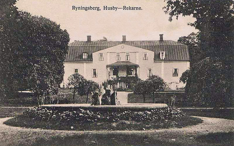 Swedish manor Ryningsberg, Eskilstuna (old postcard)